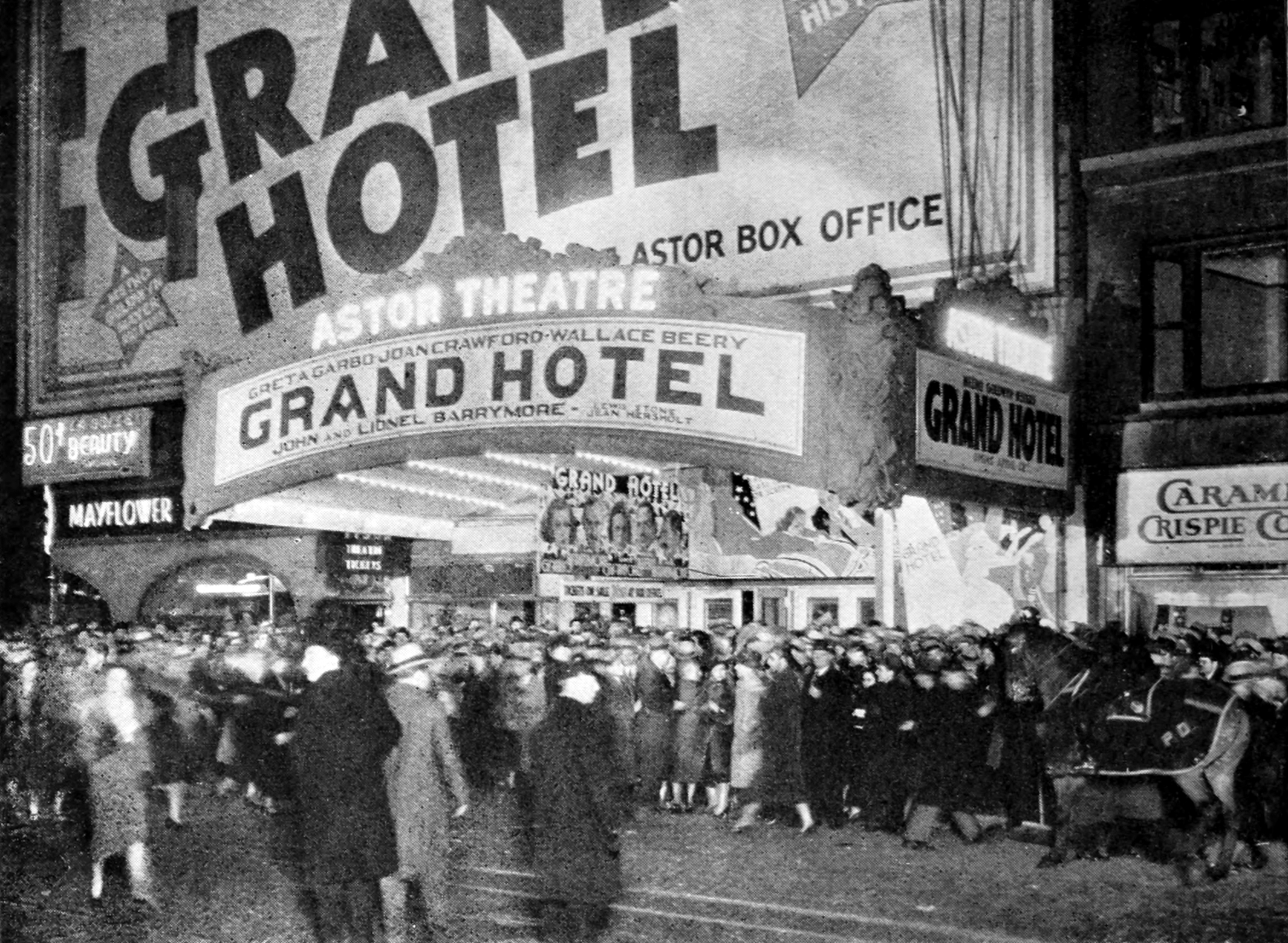 Photograph of the New York City opening of the film Grand Hotel